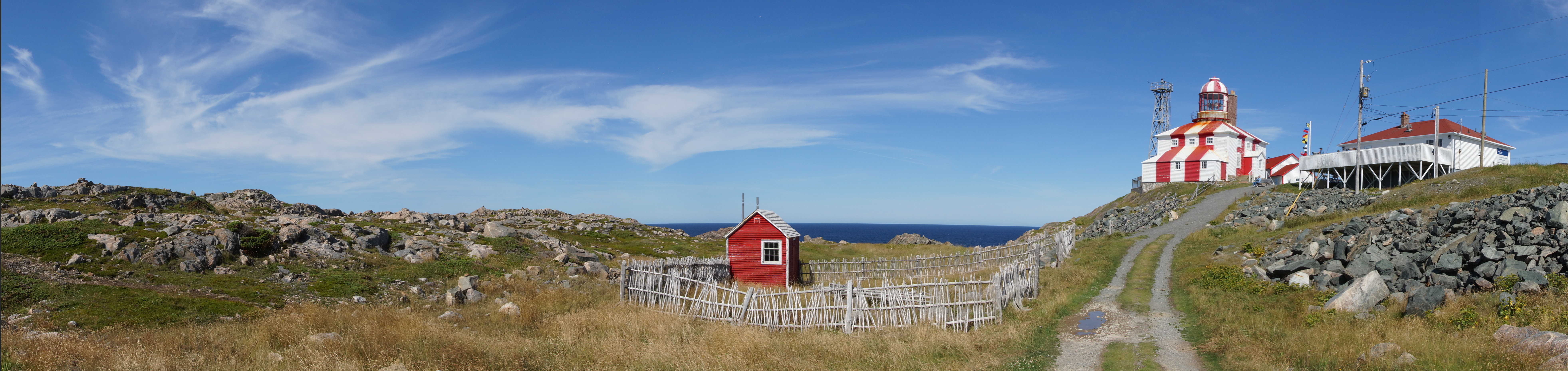 Cape Bonavista Lighthouse